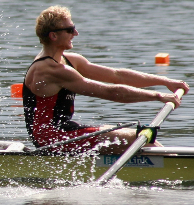 Hamish Bond competing at the 2012 new zealand rowing championships